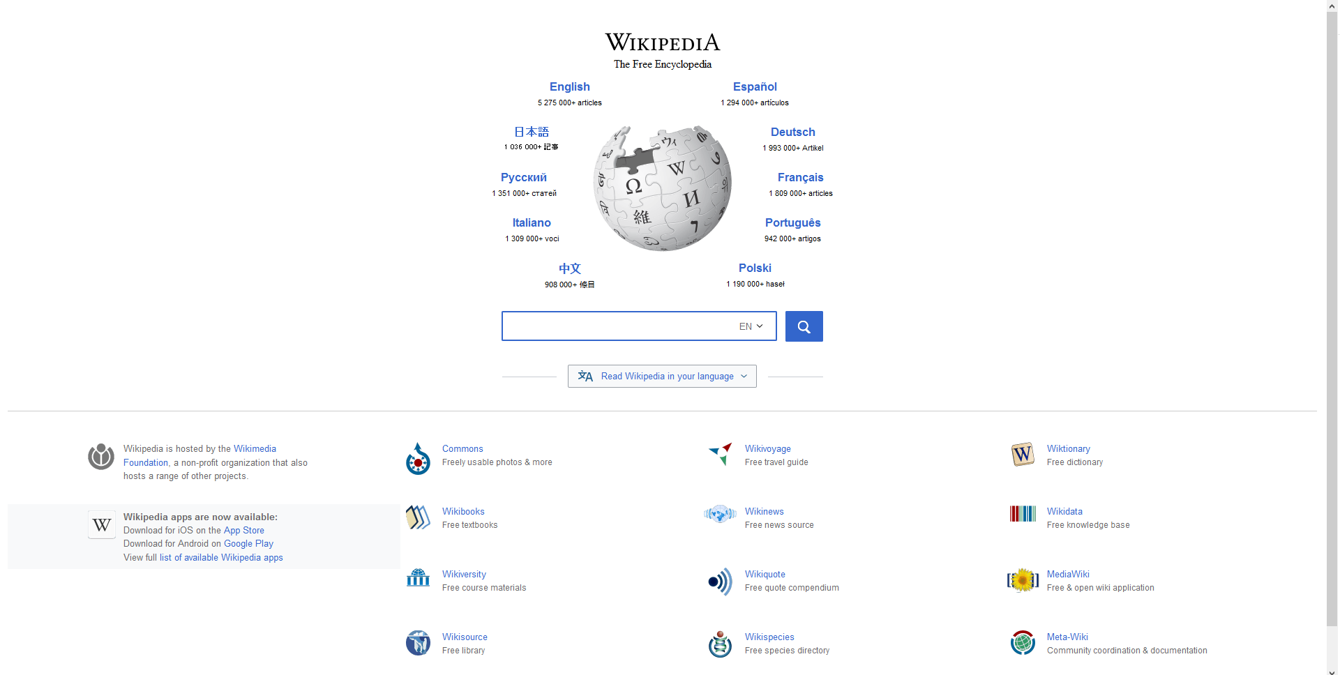 Wikipedia portal 2016-11-12